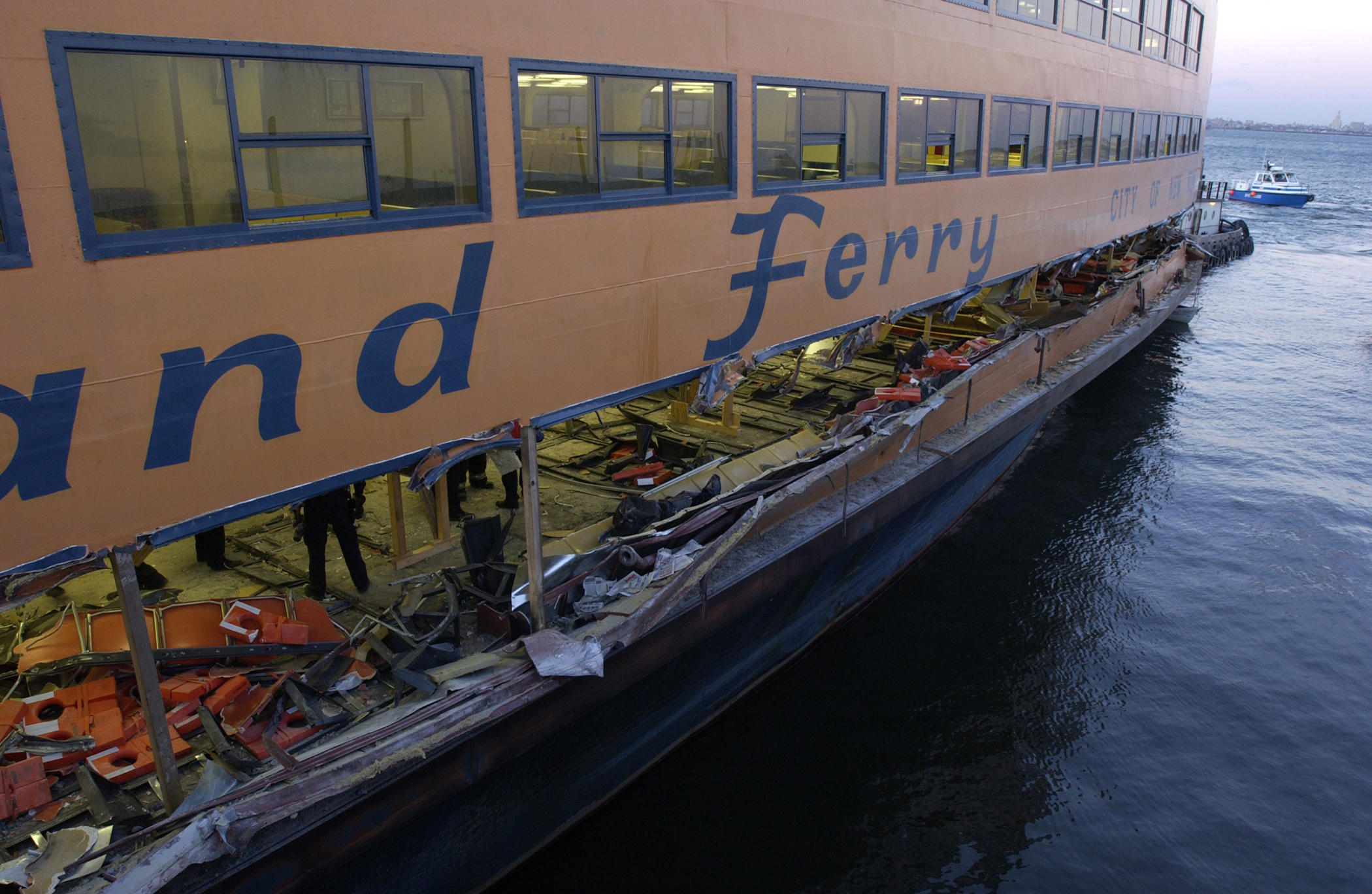 The damage to the the Staten Island Ferry Andrew J. Barberi after crashing into a pier in New York City October 15, 2003.